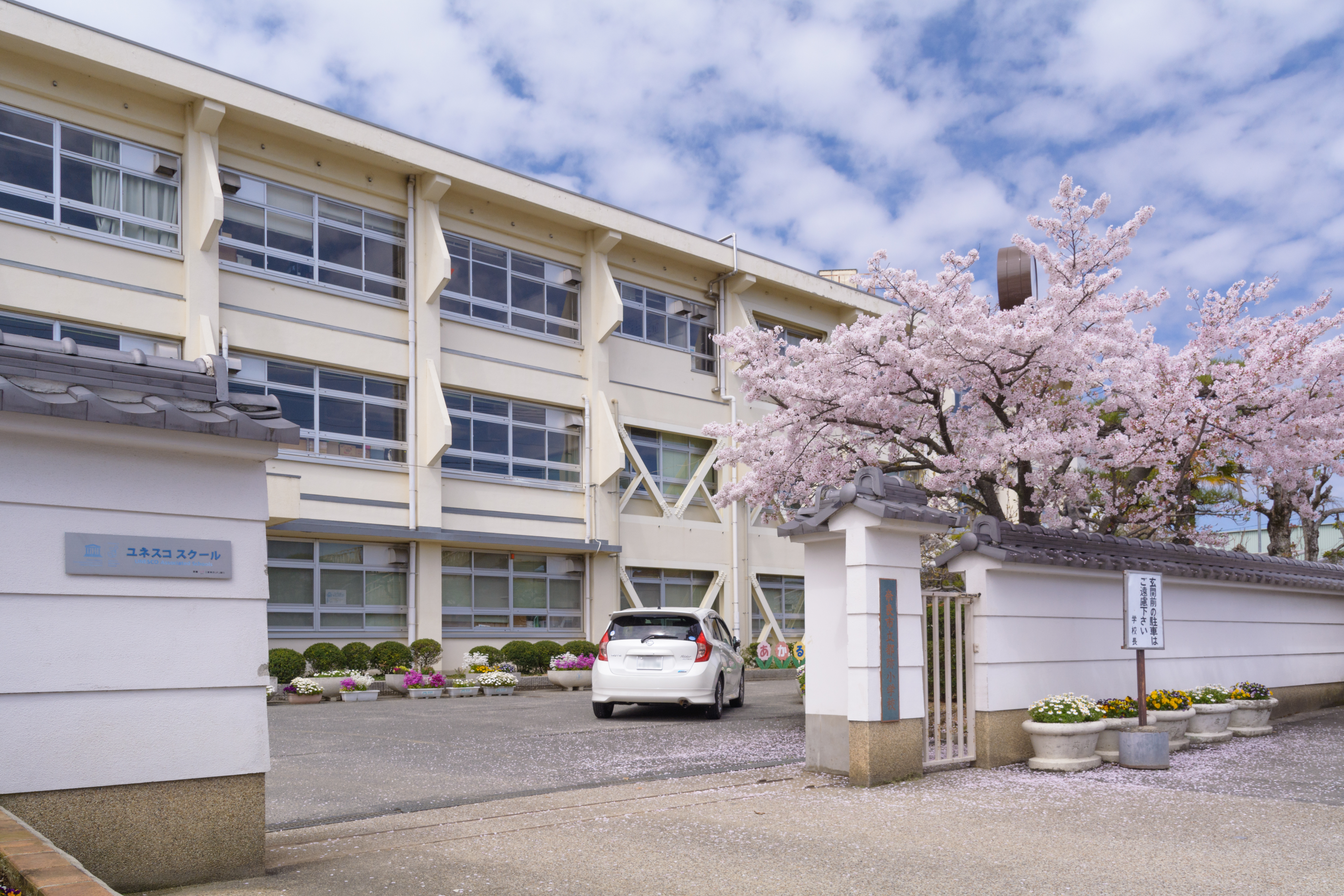 Miato elementary school, in Nara, Nara prefecture, Japan